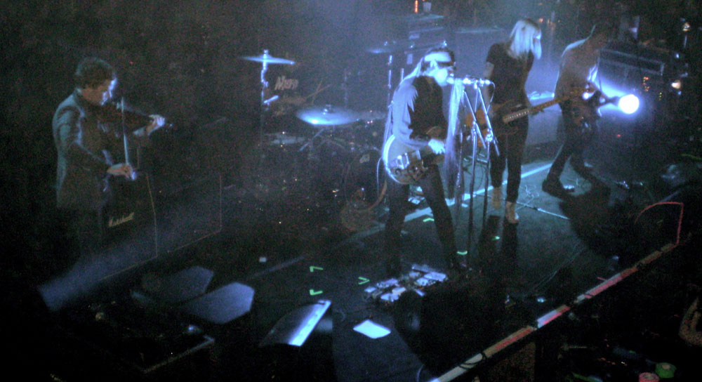 Serena Maneesh, live at the Metro Nightclub in Melbourne, Australia on 15 May 2007 (supporting Nine Inch Nails)